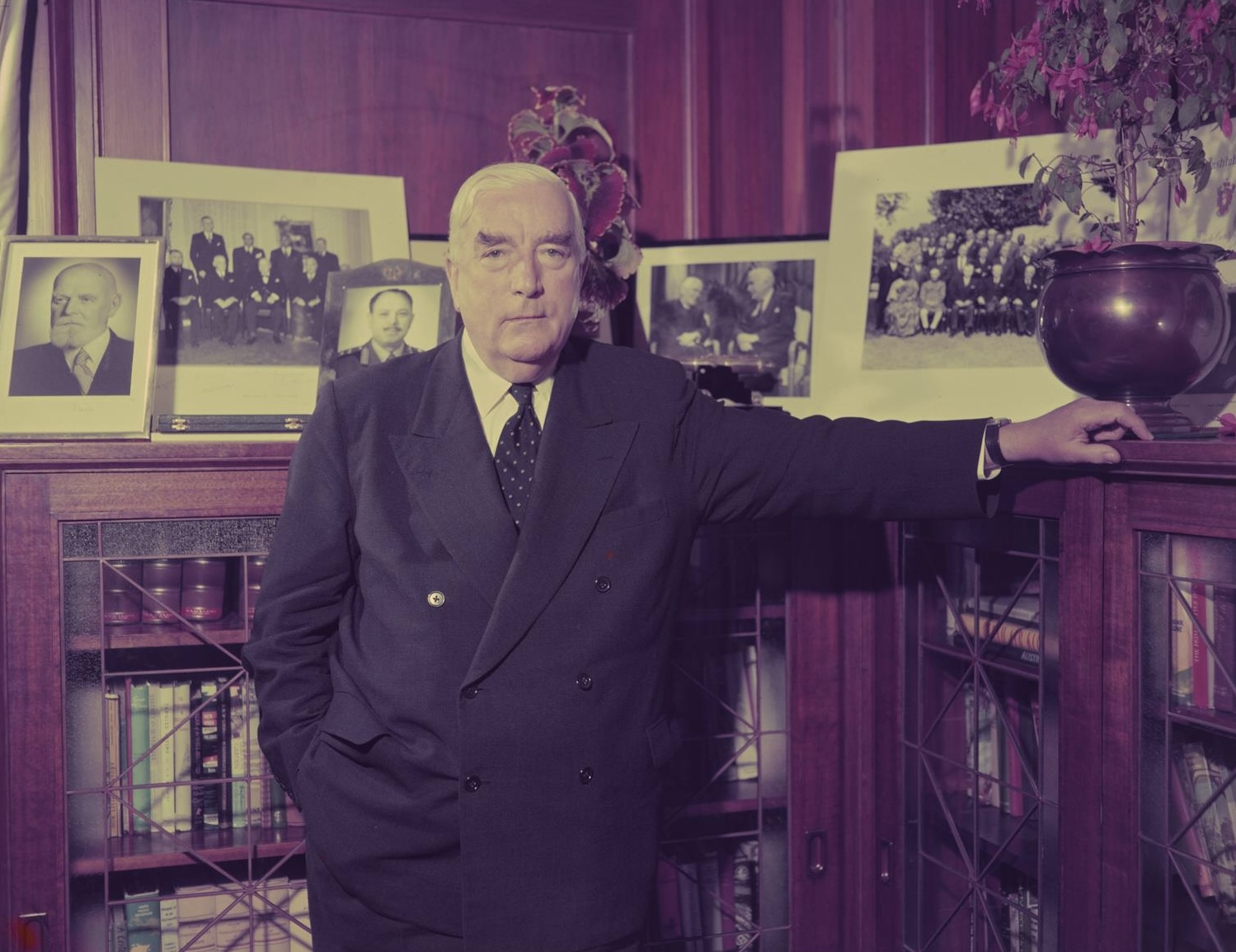 Prime Minister Robert Menzies at home in the Lodge